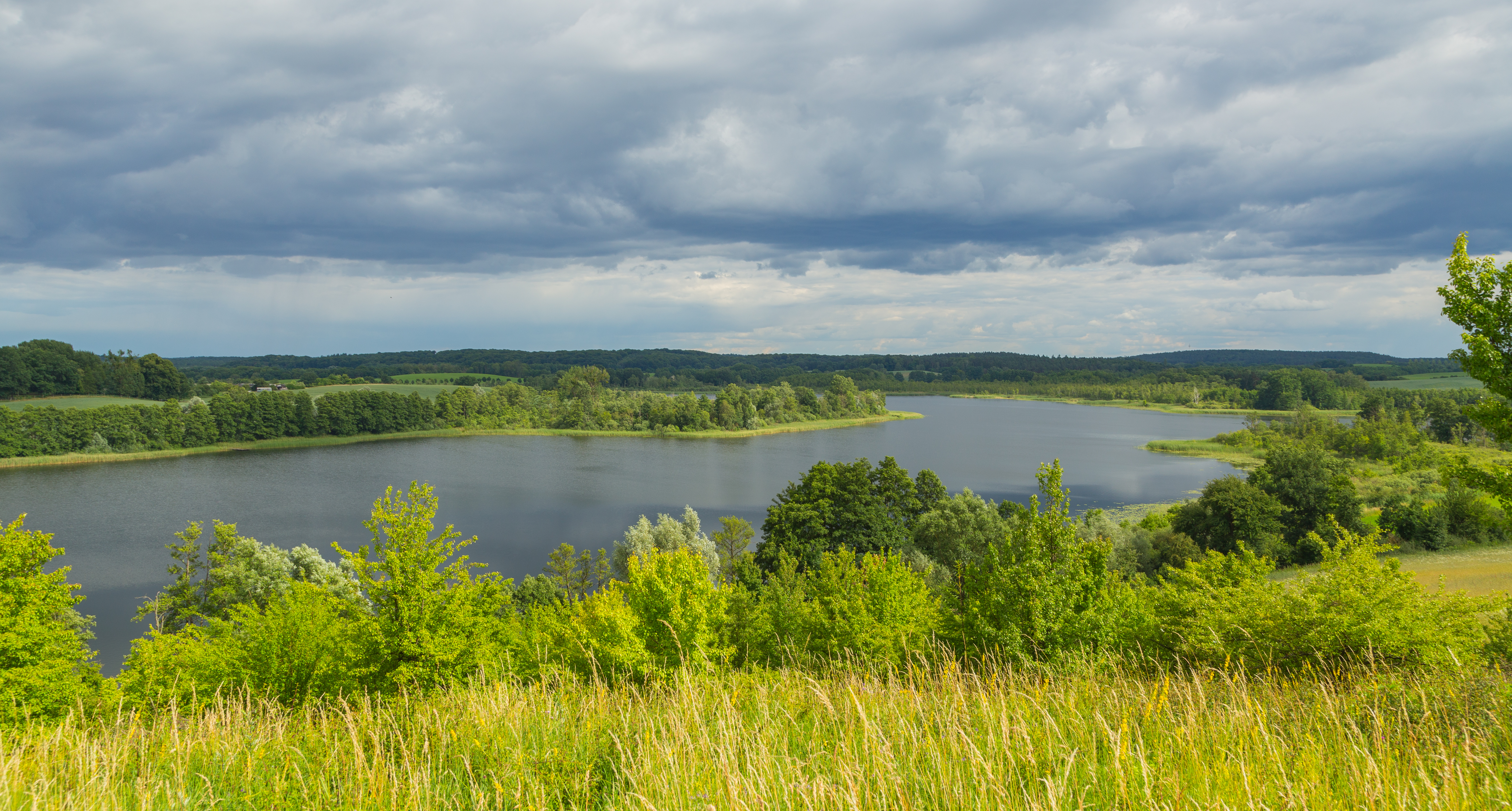 Blick vom Aussichtspunkt Spitzberg über den Sabinensee im Naturschutzgebiet Arnimswalde bei Willmine, einem Gemeindeteil von Gerswalde, Landkreis Uckermark, Brandenburg, Germany.